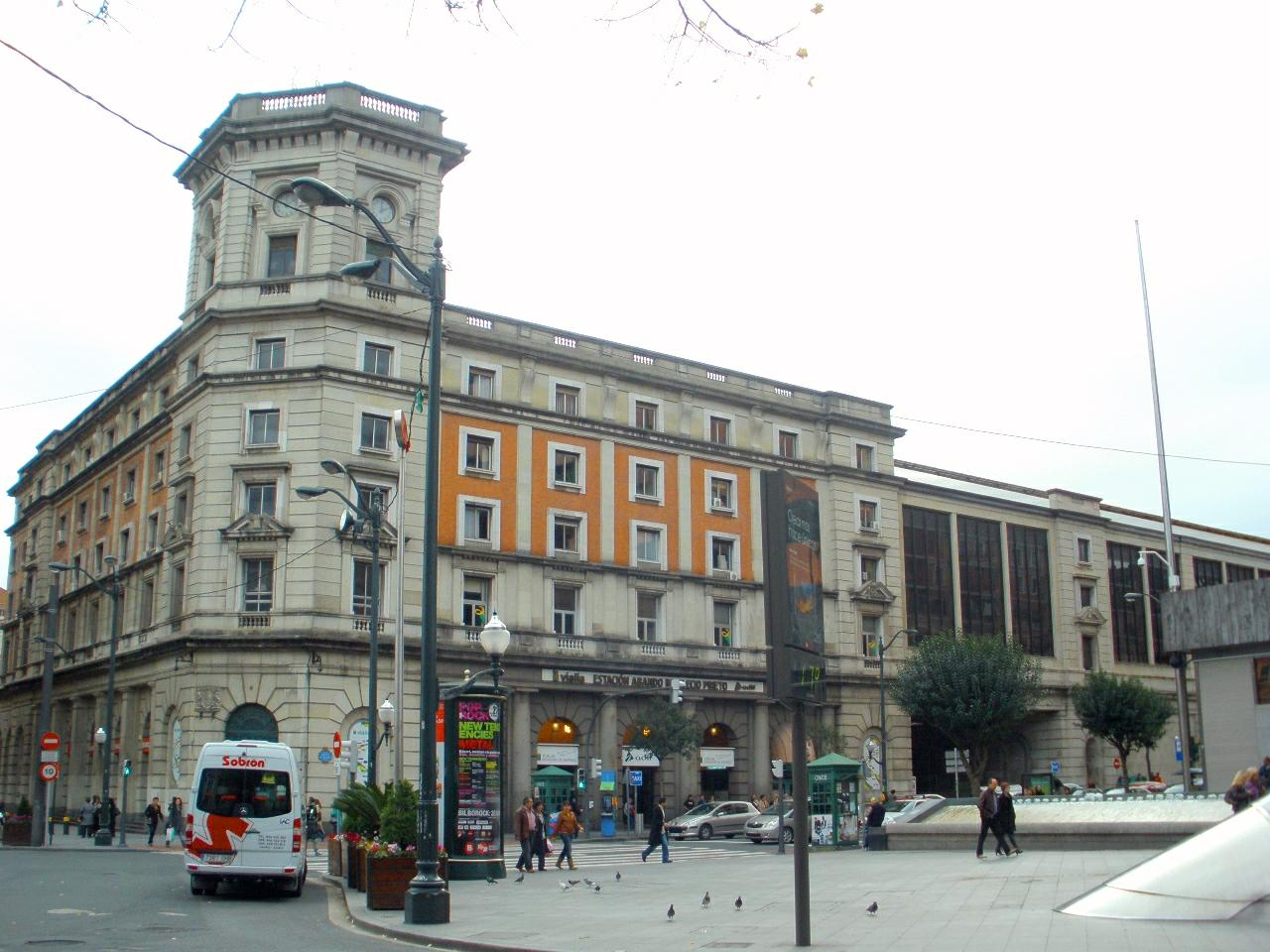 Estación de Abando Indalecio Prieto (Bilbao, España)